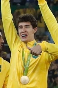 BRASIL GANHA OURO INÉDITO NO FUTEBOL OLÍMPICO